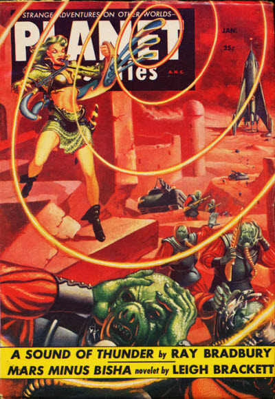 Cover of Planet Stories, January 1954